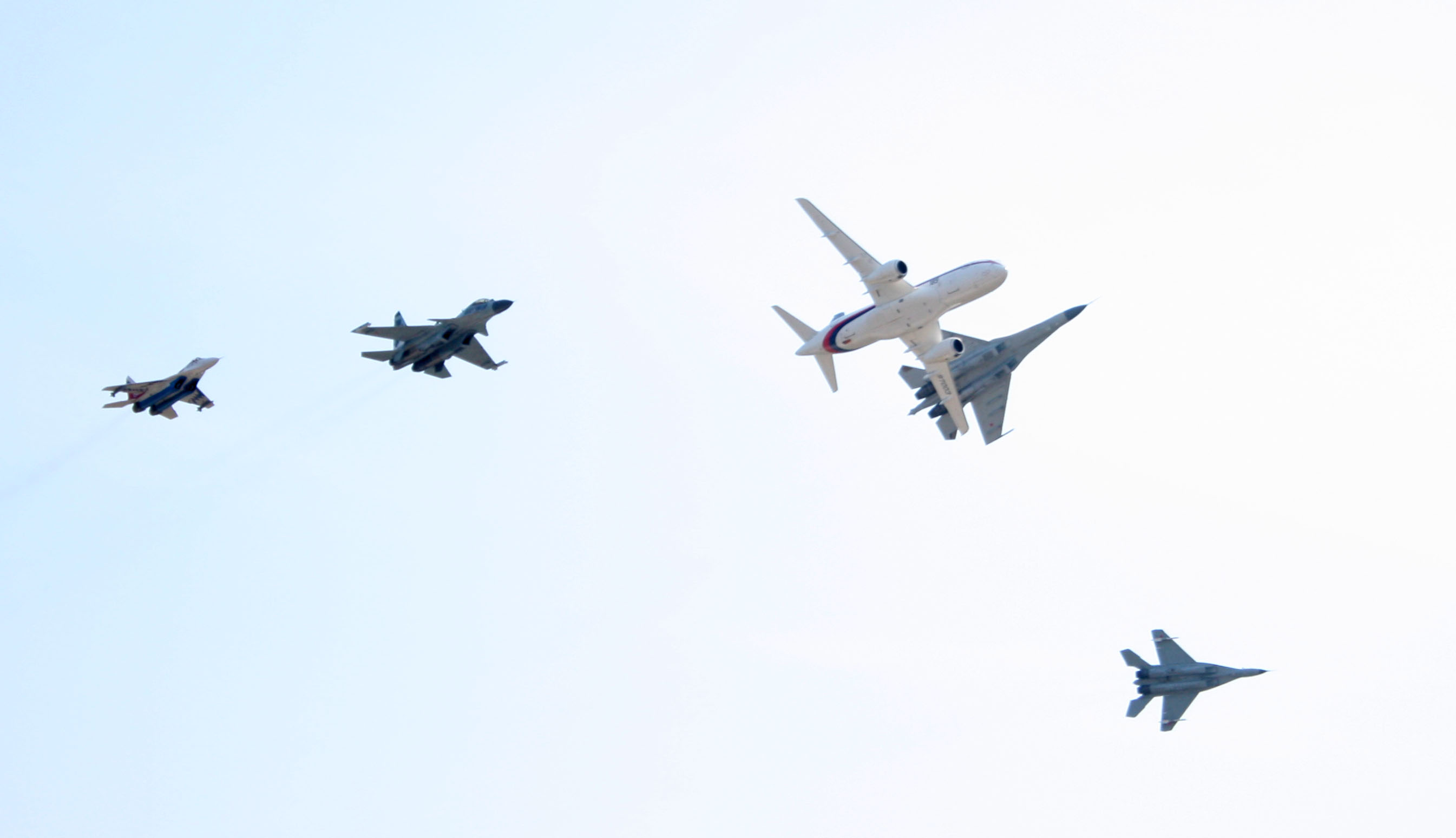 Sukhoi: Superjet 100, Su-30MKI, Su-35, Mikoyan-i-Gurevich MiG-29OVT, MiG-35 (The international aerospace salon MAKS-2009)